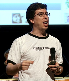 Jonathan Zittrain giving a speech